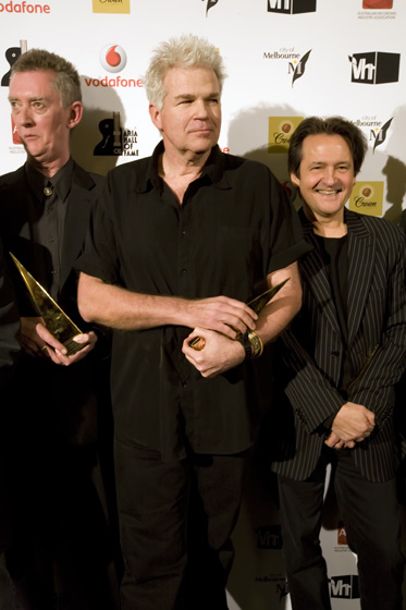 Todd Hunter (of Dragon) ARIA Hall of Fame Melbourne, July 1st 2008